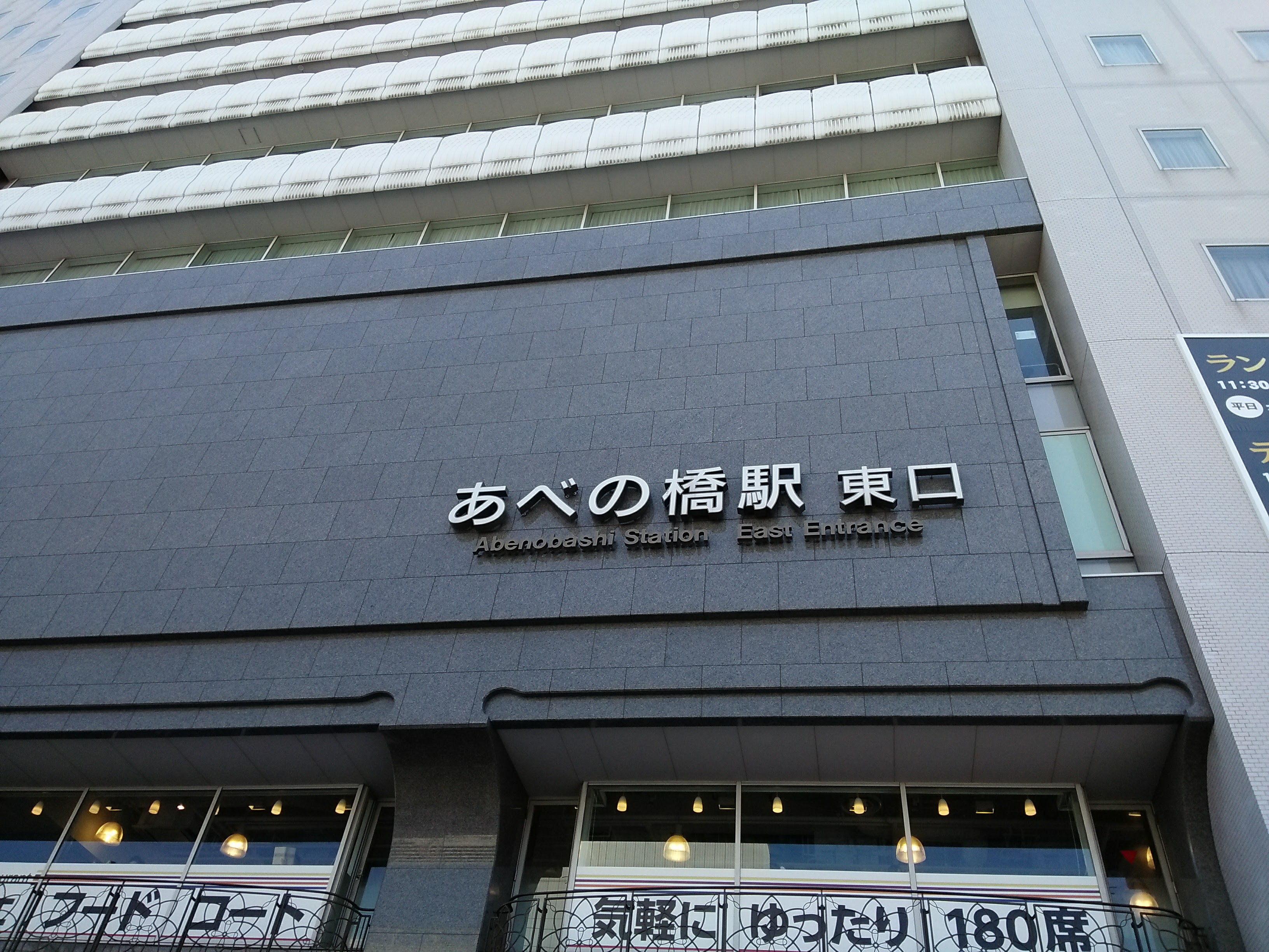 Abenobashi station East entrance, Kintetsu line, Osaka